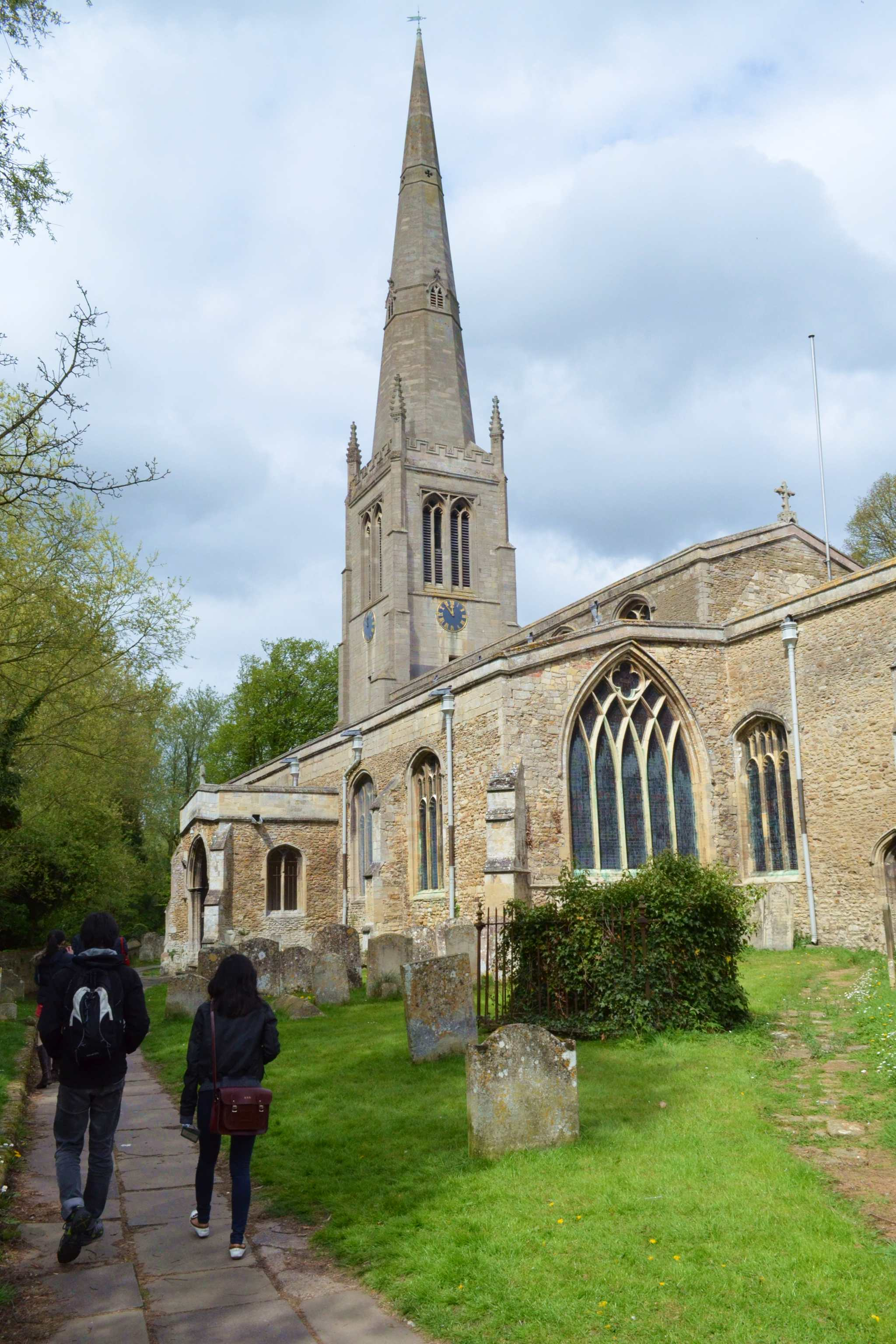 All Saints Parish Church in St Ives, Cambridgeshire in May 2014.